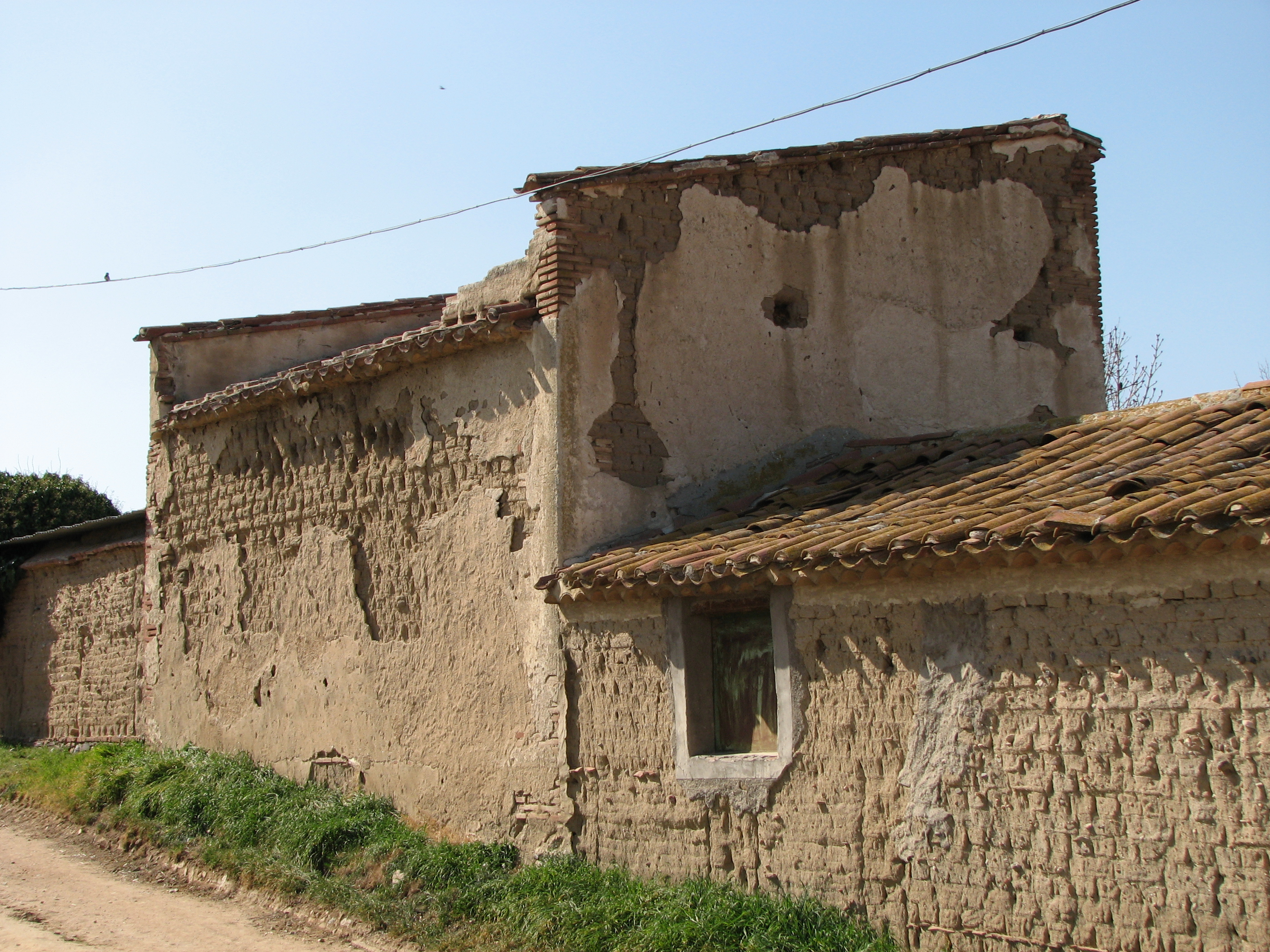 "Please translate". Santo Tomé de Zabarcos. Ávila. España.